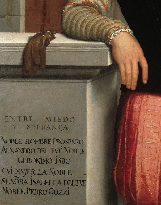 Detail of portrait of Prospero Alessandri